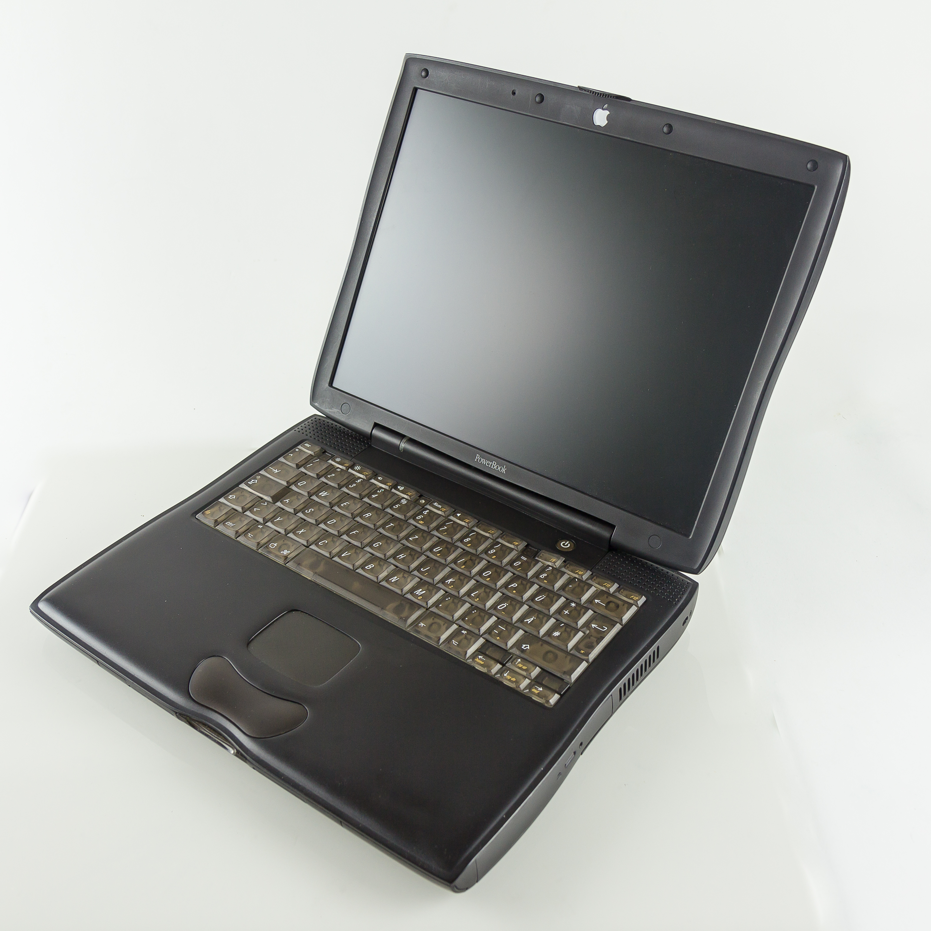 Apple PowerBook G3 500 Pismo. 500MHz, 1MB Cache, 128MB, 20GB HD, 8MB Video/DVD, Family Number: M7572